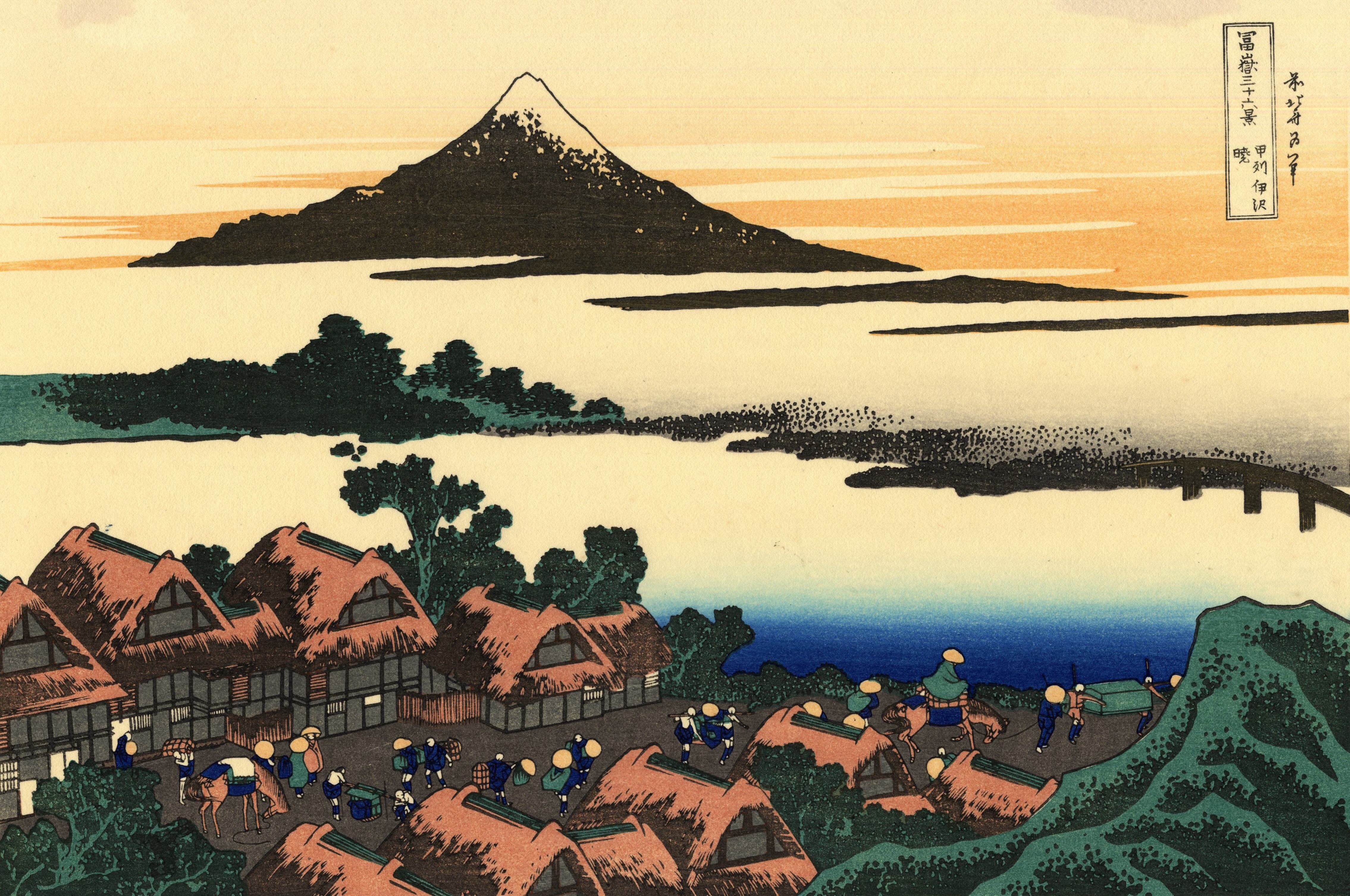 Part of the series Thirty-six Views of Mount Fuji, no. 43, 7th additional woodcut.